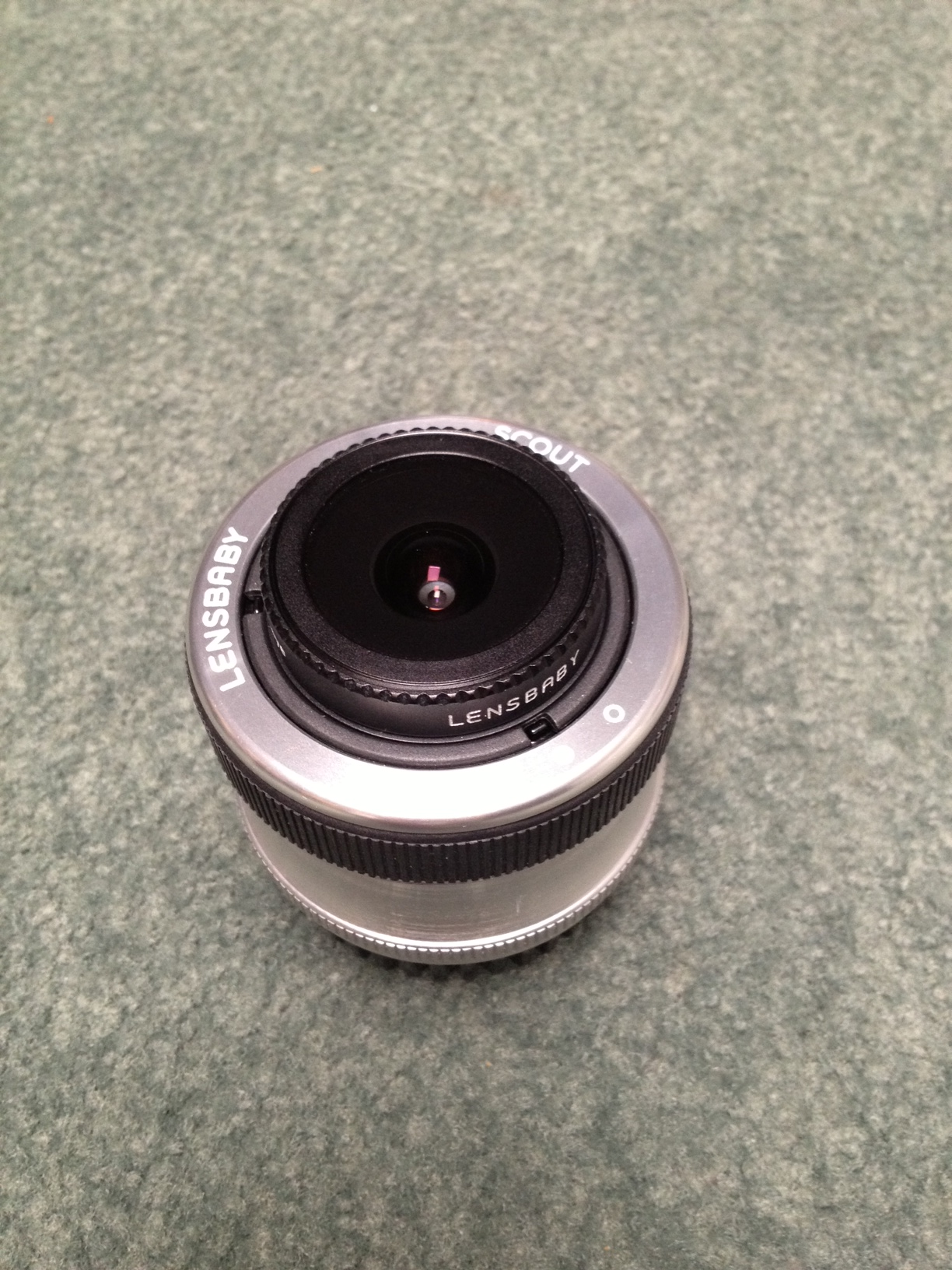 Lensbaby's only nonbending lens called Scout installed with a Fisheye Optic